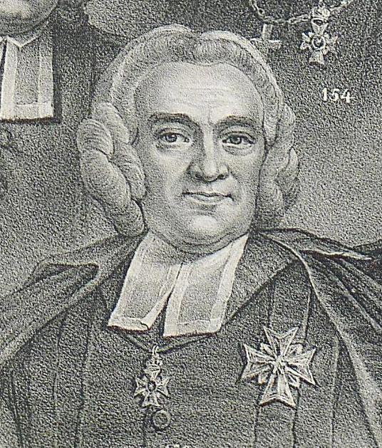 Olof Celsius den yngre (1716-1794), Swedish historian, professor and bishop in the Diocese of Lund